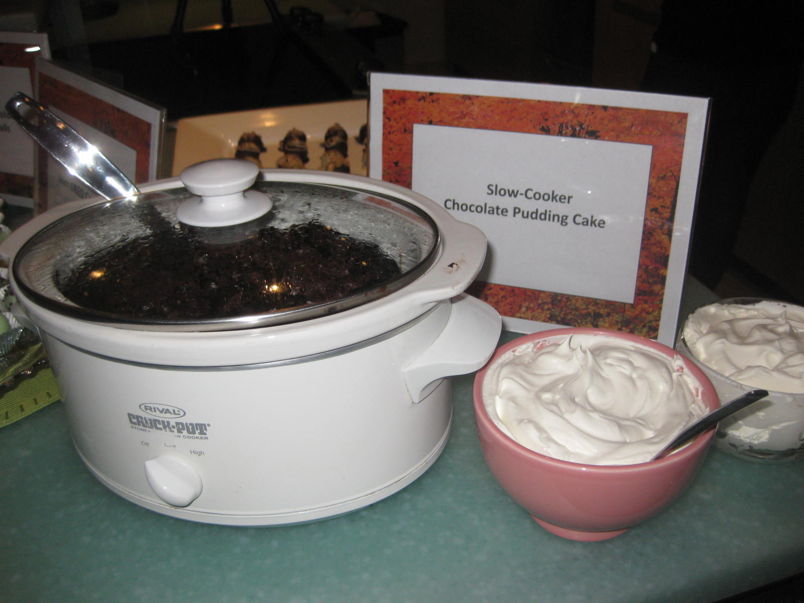 I had a teeny tiny bite, I couldn't resist! Photo by Elizabeth (table4five) Website